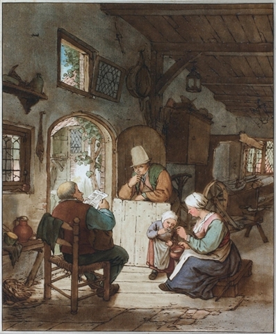 A weaver's family after Adrian van Ostade